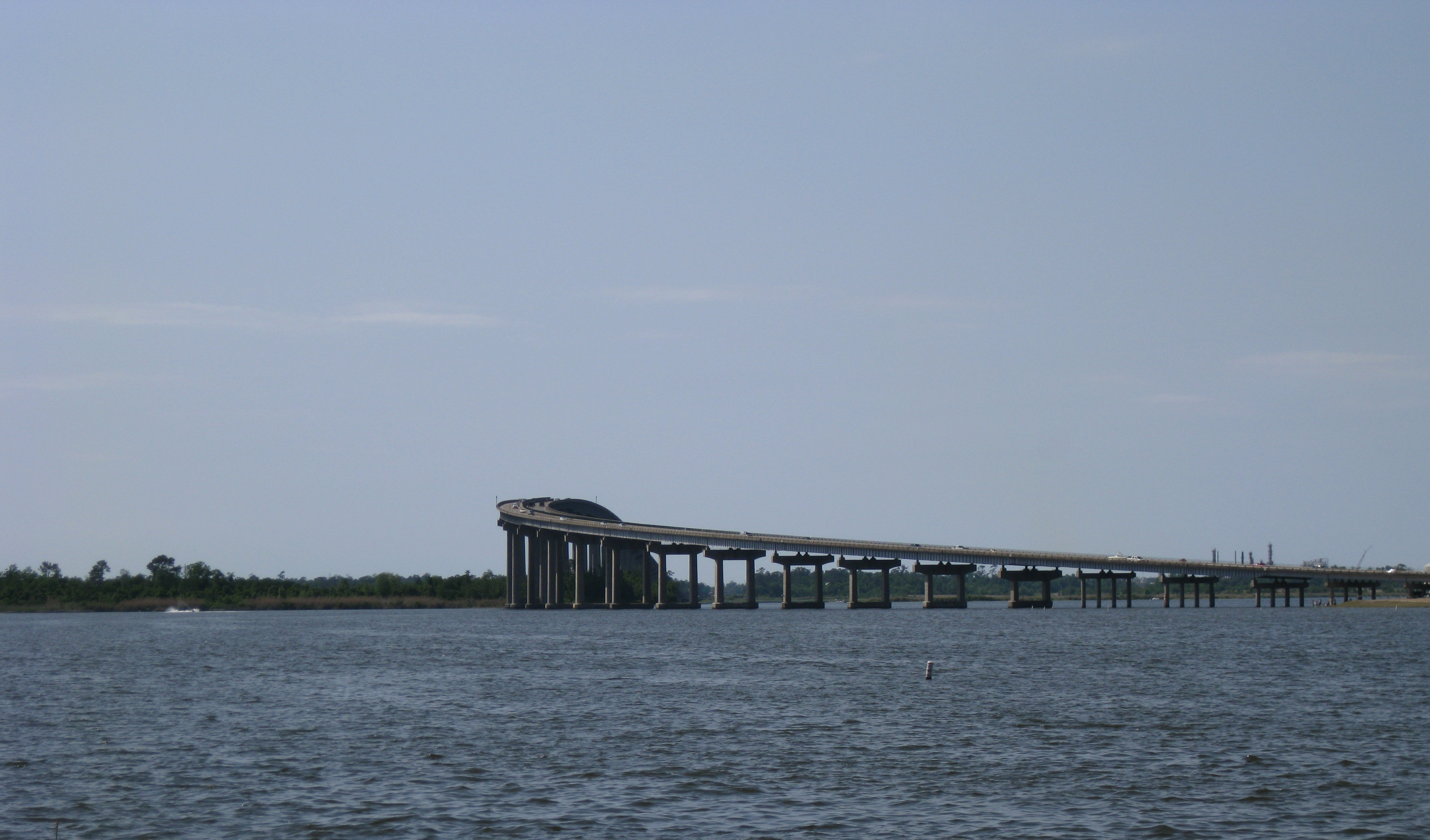 The beautiful Interstate 210 Bridge in Lake Charles, Louisiana, which passes over Prien Lake and the Calcasieu River/Ship Channel.